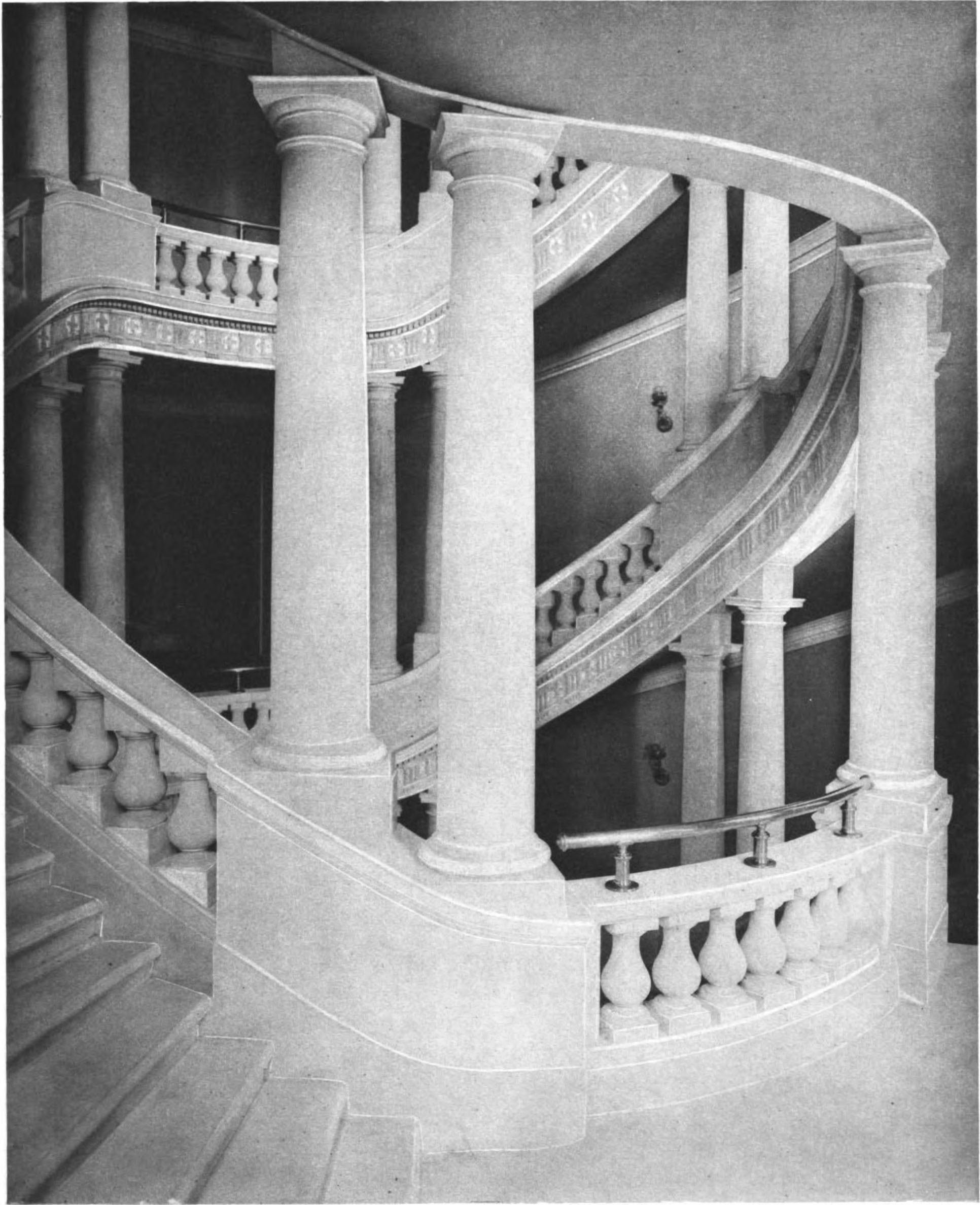 View of one of the circular main staircases of the New Theatre on Central Park West in New York City.